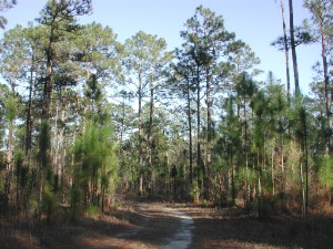 Longleaf pine forest (Pinus palustris) Image taken by me, released under GFDL Pollinator